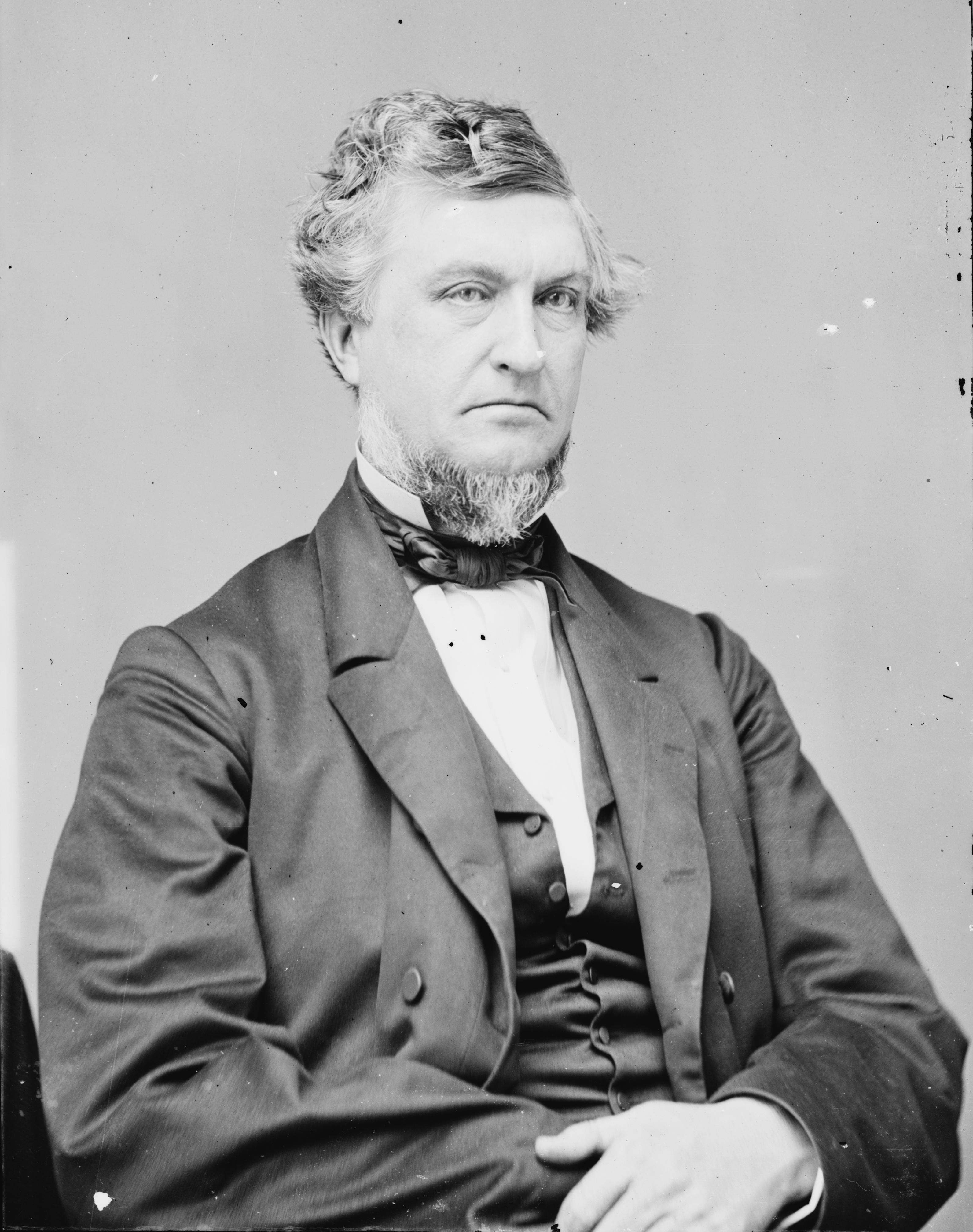 Zachariah Chandler. Library of Congress description: "Hon. Zach Chandler of Mich."